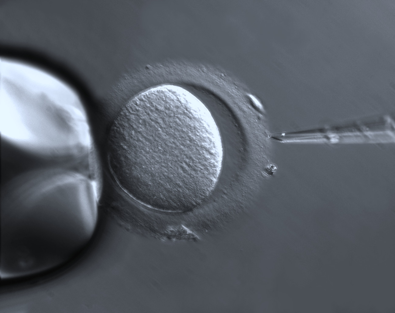 Human oocyte with Zona pellucida, in vitro fertilization (IVF) and assisted reproductive technology (ART) with ZEISS Axio Vert.A1 and PlasDIC contrasting method Images donated as part of a GLAM collaboration with Carl Zeiss Microscopy - please contact Andy Mabbett for details.